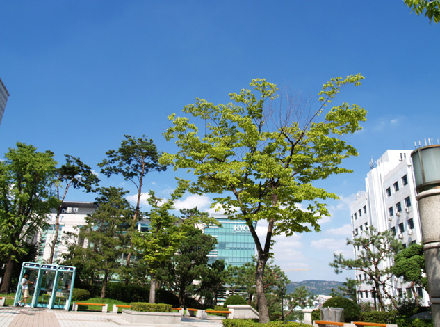 One scene in Hanyang University